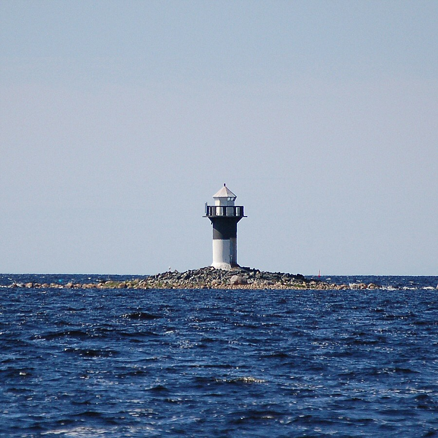 Rivinletto Light on the Kaasamatala rock at the entrance to Kiiminki River in Haukipudas, Finland.